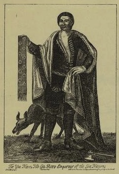 18th century engraving labeled "Tee Yee Neen Ho Ga Ron Emperor of the Six Nations"